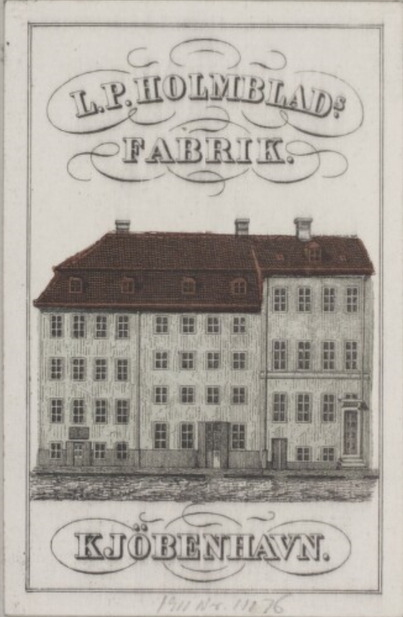 Gothersgade nr. 33: L. P. Holmblads Fabrik